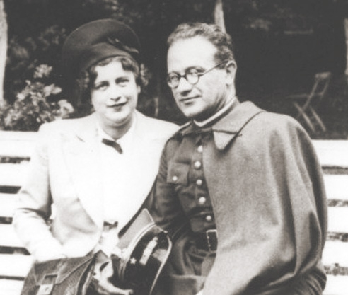 Baruch Steinberg (1897-1940). Chief Rabbi of the Polish Army, during German invasion of Poland in 1939. He was murdered in the Katyn massacre by the Soviet NKVD in April 1940.